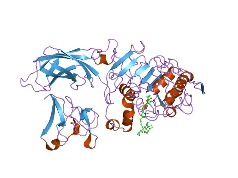 Cartoon representation of the molecular structure of protein registered with 1lpa code.